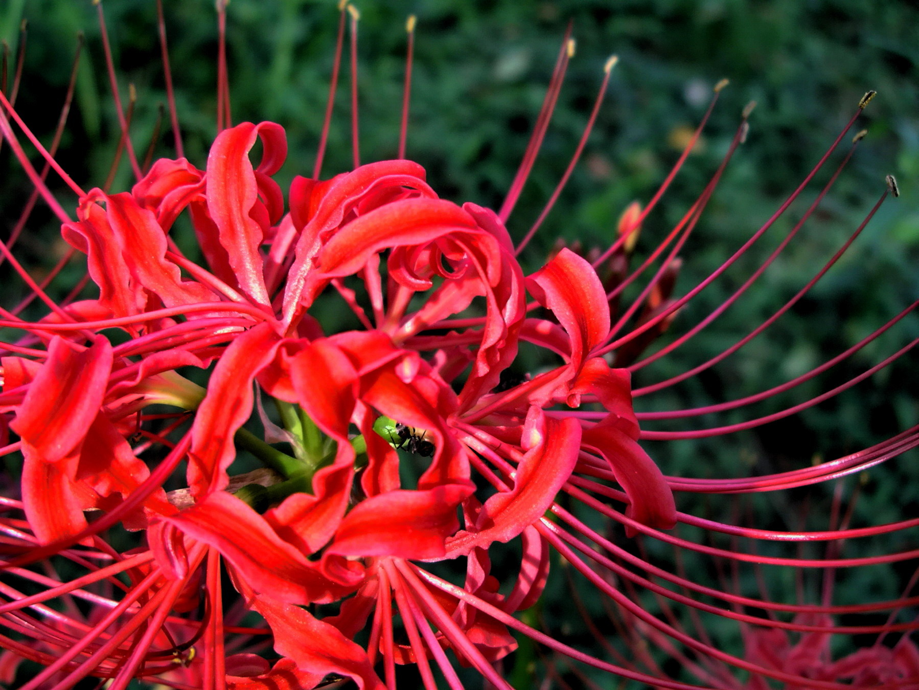 Higanbana (red spider lily).